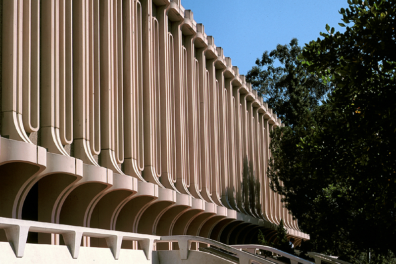 Jack Langson Library at UC Irvine is one of the eight original buildings on the campus, designed by architect William Pereira in 1965.